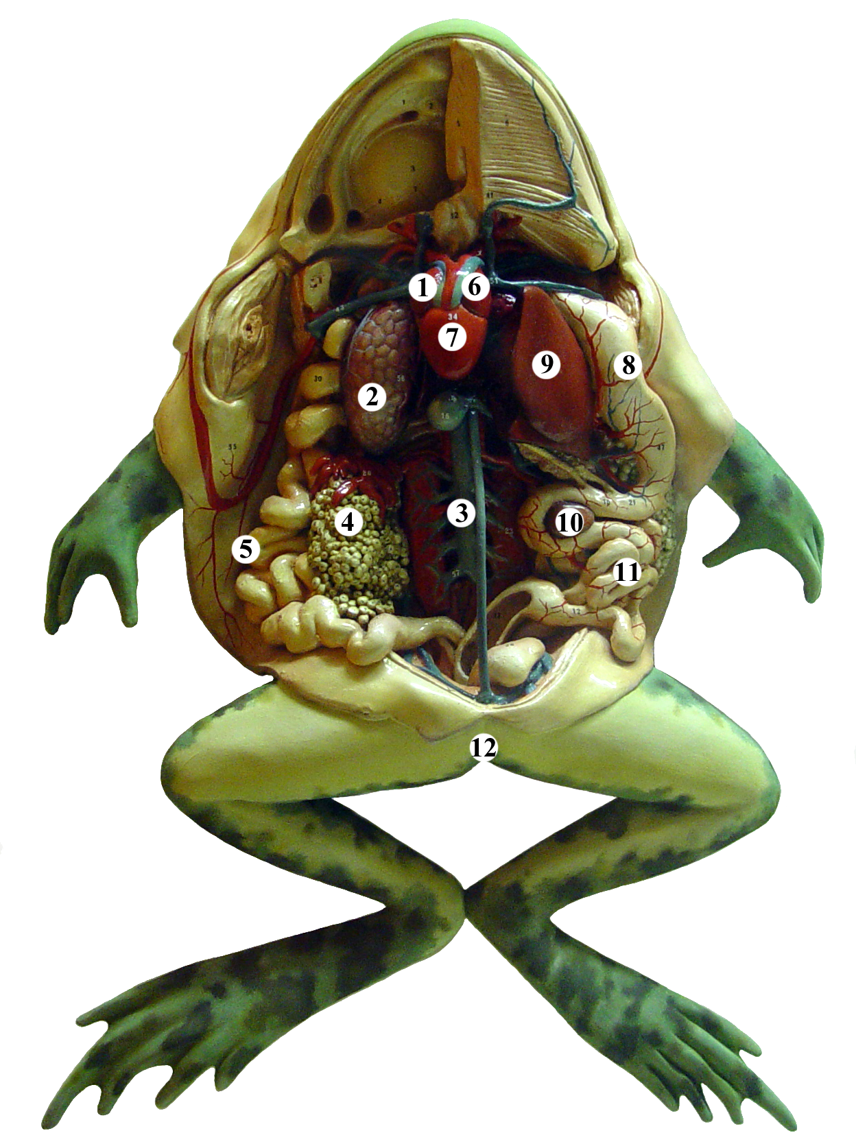 Frog anatomy display in NMH Washington DC, United States. Right atrium Liver Aorta Egg mass Colon Left atrium Ventricle Stomach Left lung Spleen Small intestine Cloaca